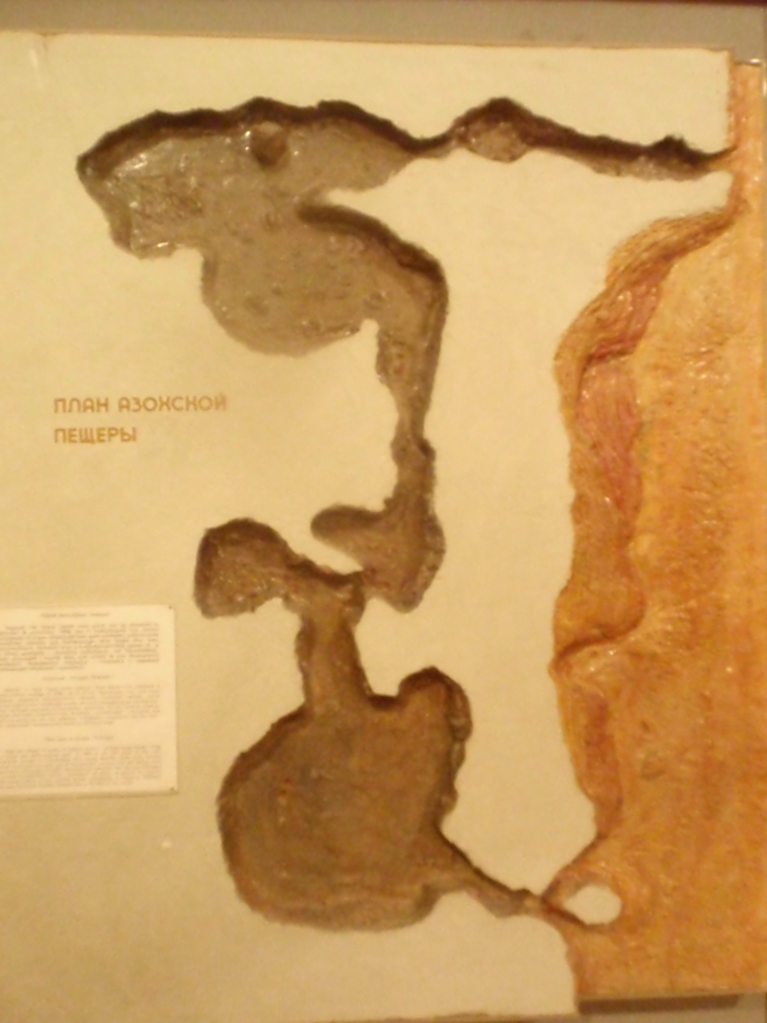 Artsakh State Museum, the plan of Azykh cave. Stepanakert, Republic of Mountainous Karabakh (Artsakh) / Khankendi, Azerbaijan.